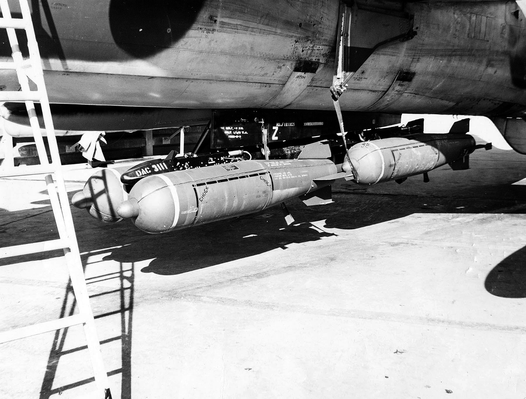 CBU-24 cluster bombs fitted to a US Air Force F-105 Wild Weasel.